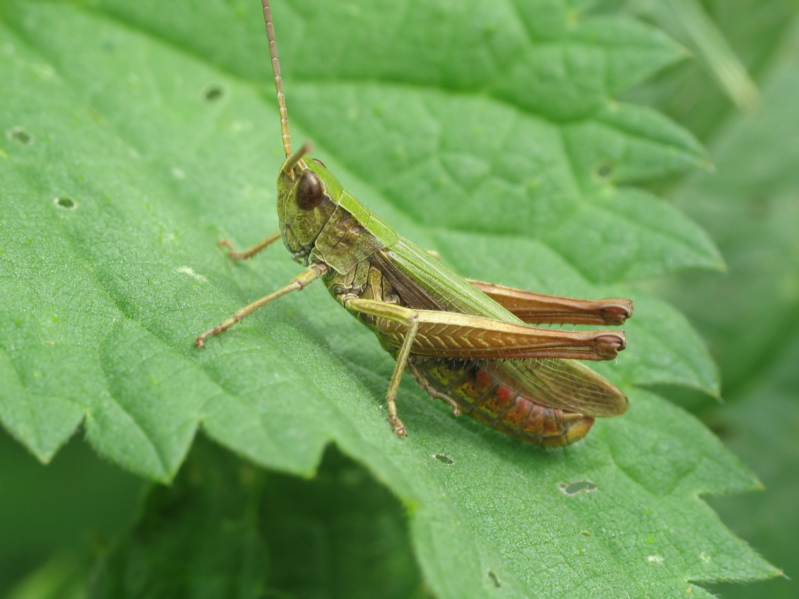 Probably Chorthippus dorsatus, Location Zgierz (Słupsk County, Pomeranian Voivodeship, Poland)